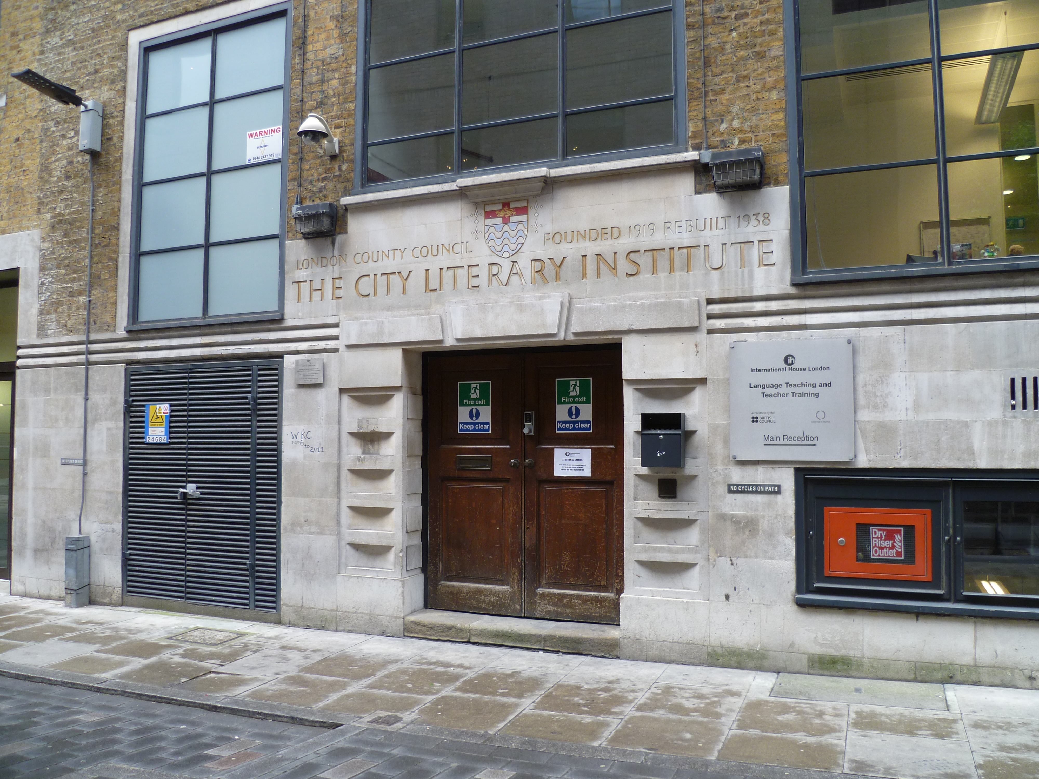 City Lit fire exit London.